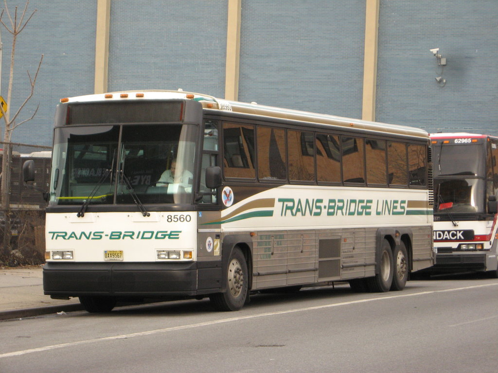 Trans-Bridge Lines MCI D4500 #8560 (leased from New Jersey Transit) on layover in New York, NY.